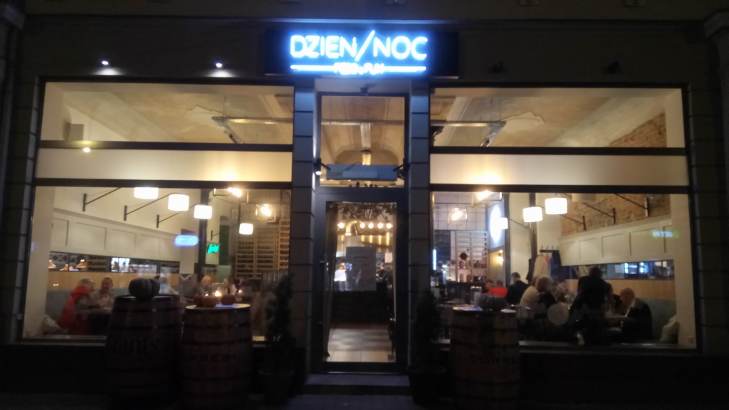 Katowicka kawiarnia w 2018 roku.